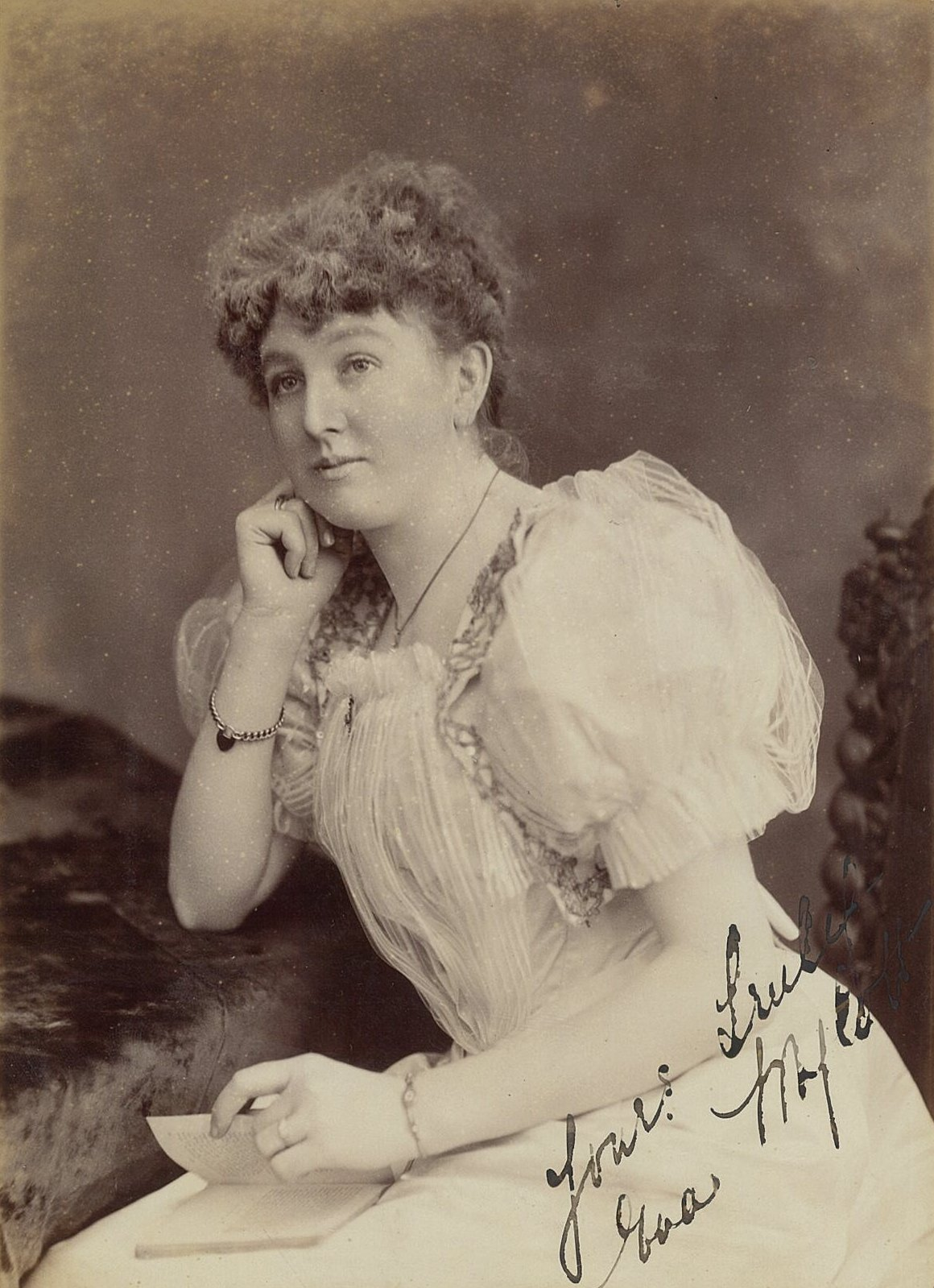 Eva Mylott, contralto and paternal grandmother of Mel Gibson, was born in 1875 at Tuross Head, N.S.W. Her family owned the whole peninsula at one time. Her father Patrick imported wines and spirits, and had ships trading from Tuross Head. He built Tuross House in the 1870's but rented the property out in 1883 (?) for his daughter's singing lessons. In Dec 1902 she sailed for the United States, appearing at the Metropolitan Opera with Nellie Melba and touring in 1914 with her cousin Marie Narelle (Molly Ryan), another singer, whose recordings are kept and issued by Screensound Australia. She was reputedly one of the many Melba protegees. She married in New York in 1917 and lived on Long Island. Her first son Hutton P. Gibson was Mel Gibson's father. She died in 1920 after her second son Alexander was born. Format: Photograph Notes: Find more detailed information about this photograph: .au/item/itemDetailPaged.aspx?itemID=446504 Search for more great images in the State Library's collections: .au/search/SimpleSearch.aspx From the collection of the State Library of New South Wales